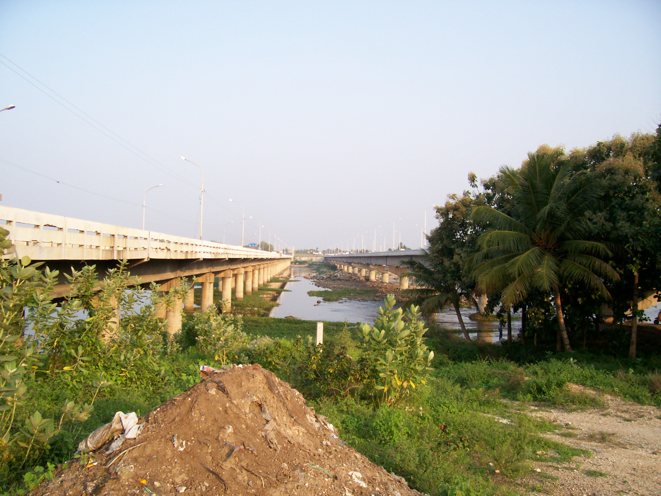 Old and New National Highway bridges over the River Kaveri at Bhavani.